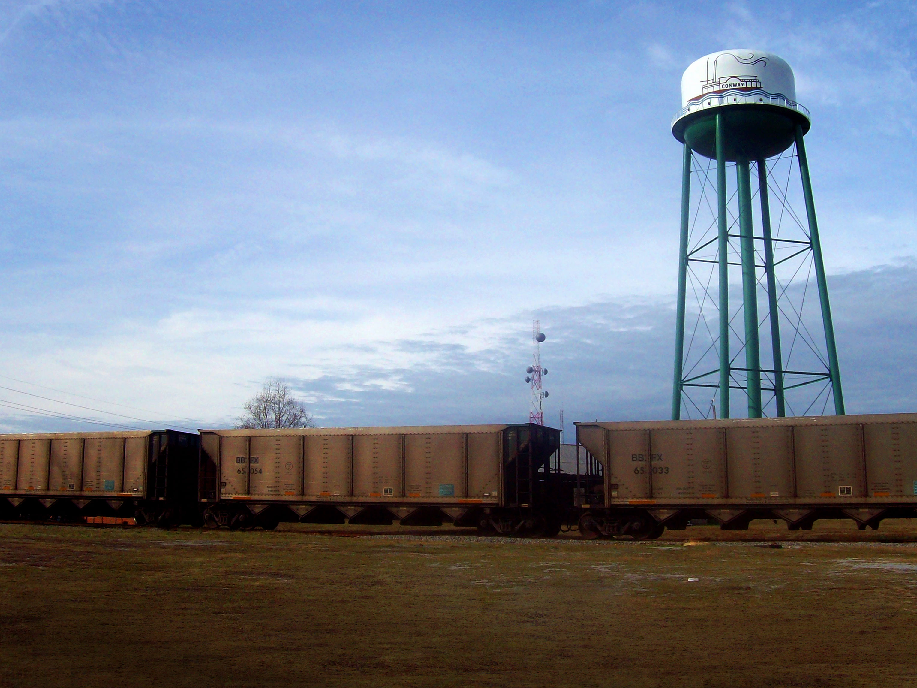 Photo of the railroad in Conway, SC, USA, taken from the Conway marina